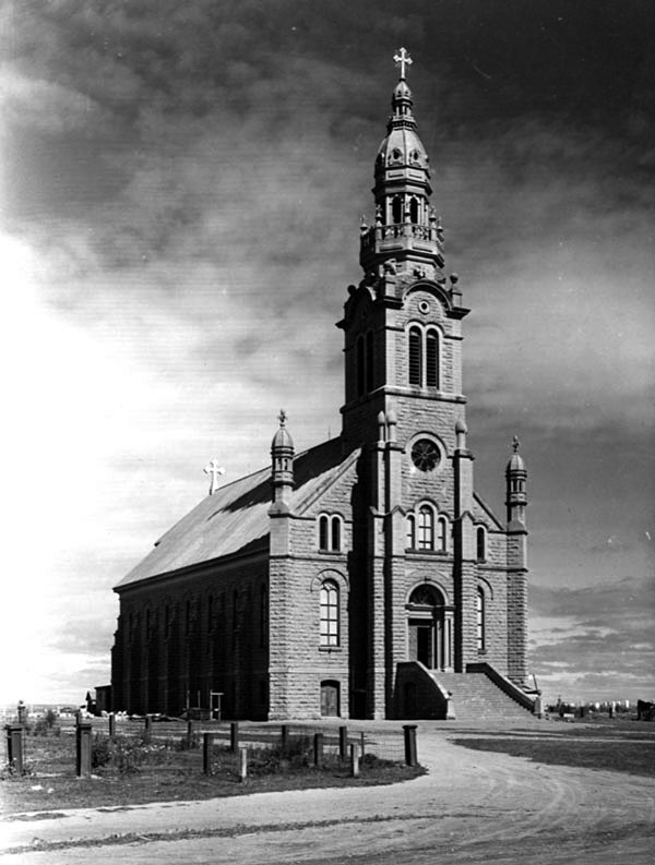 The Saint Simon and Saint Jude church in Grande-Anse, New Brunswick, circa 1940.